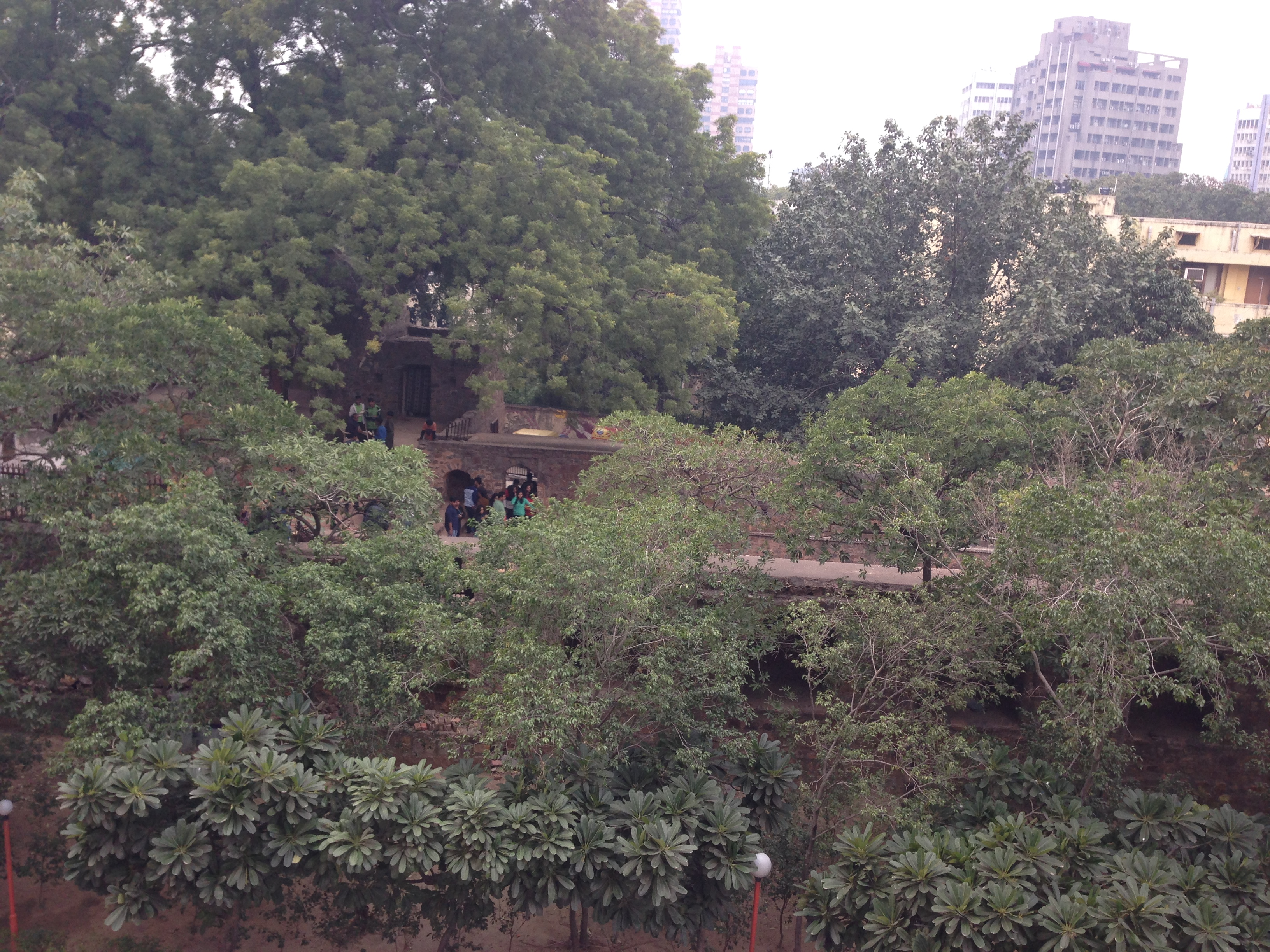 Agrasen ki Baoli Agar Sain ki Baoli or Ugrasen ki Baoli) Haily Road Iran embassy Road.Persian architecture